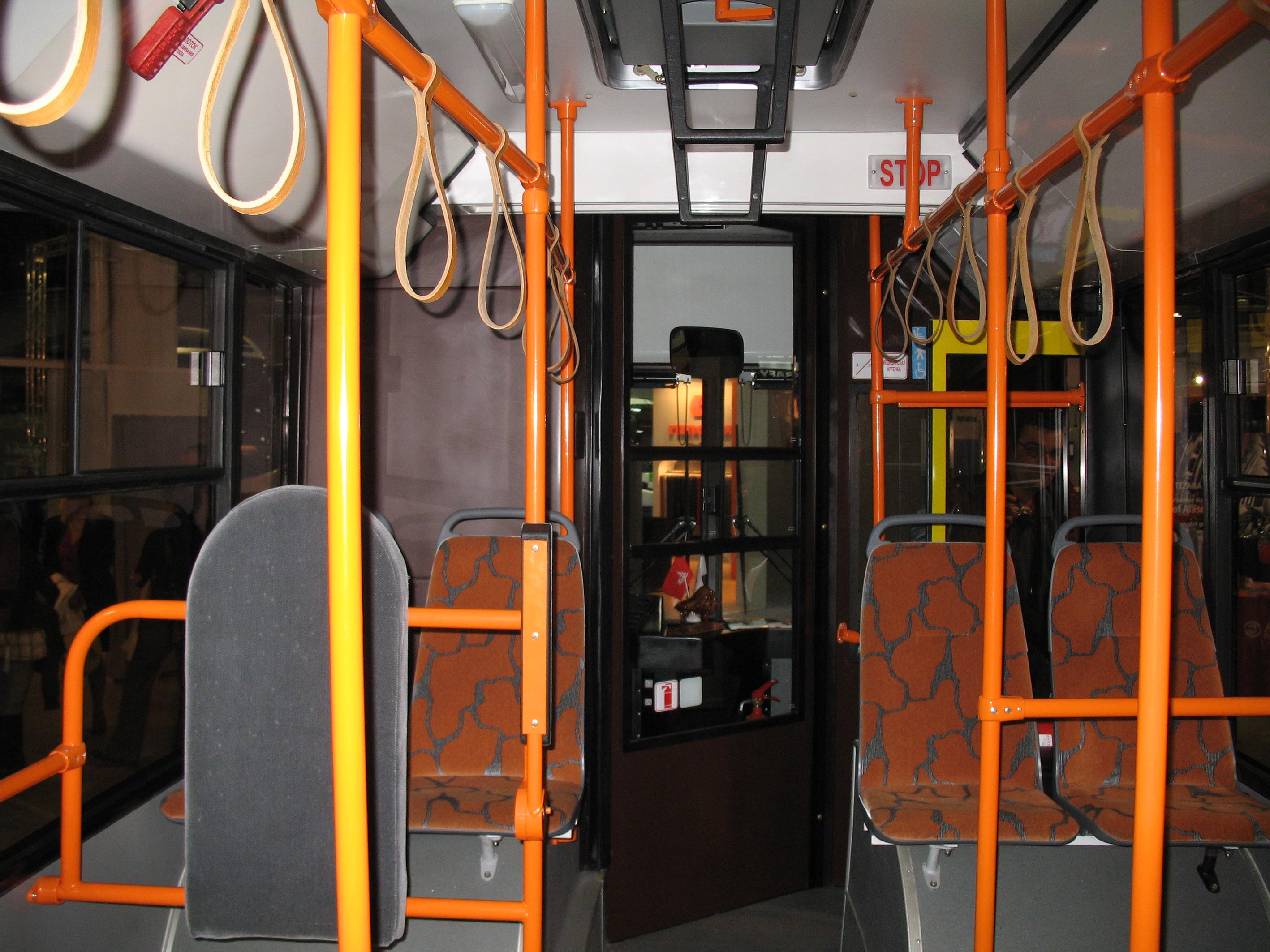 MAZ 107 bus (reg. AE 5257-7) in Kielce, Poland. Built 2008. Transexpo 2008.